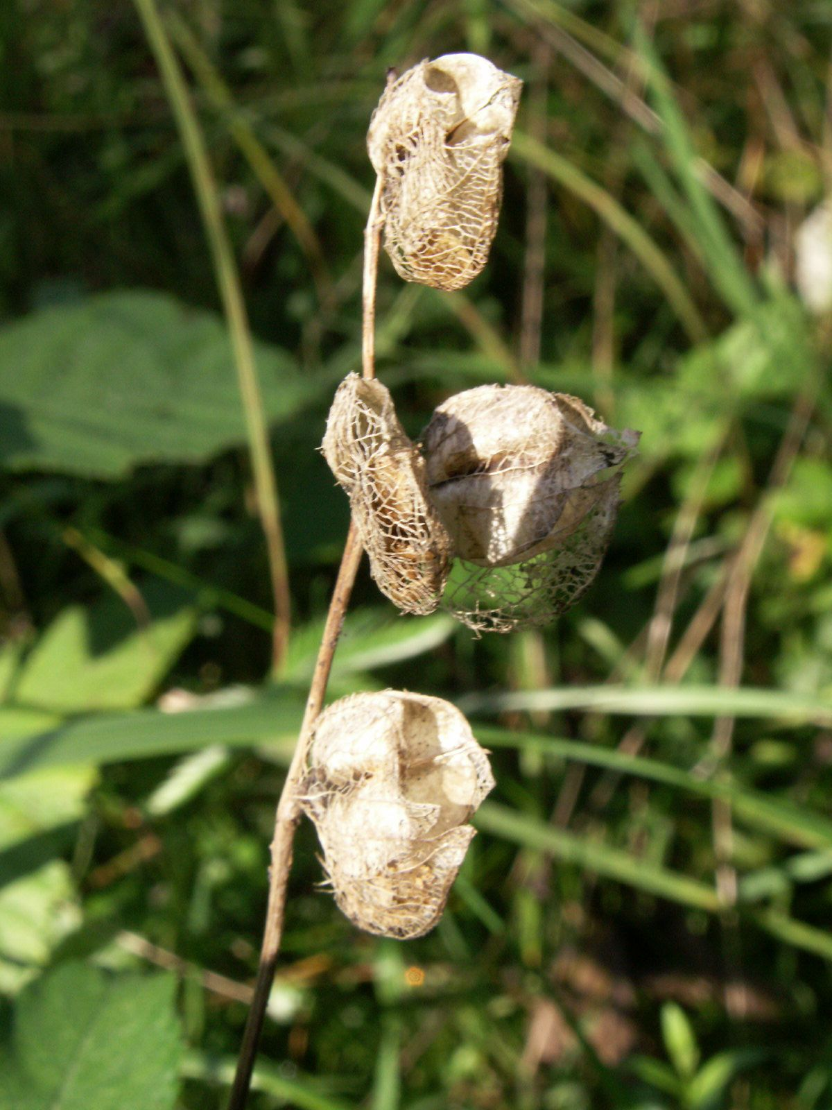 not yet specified, probably Rhinanthus serotinus (wet forest meadow)